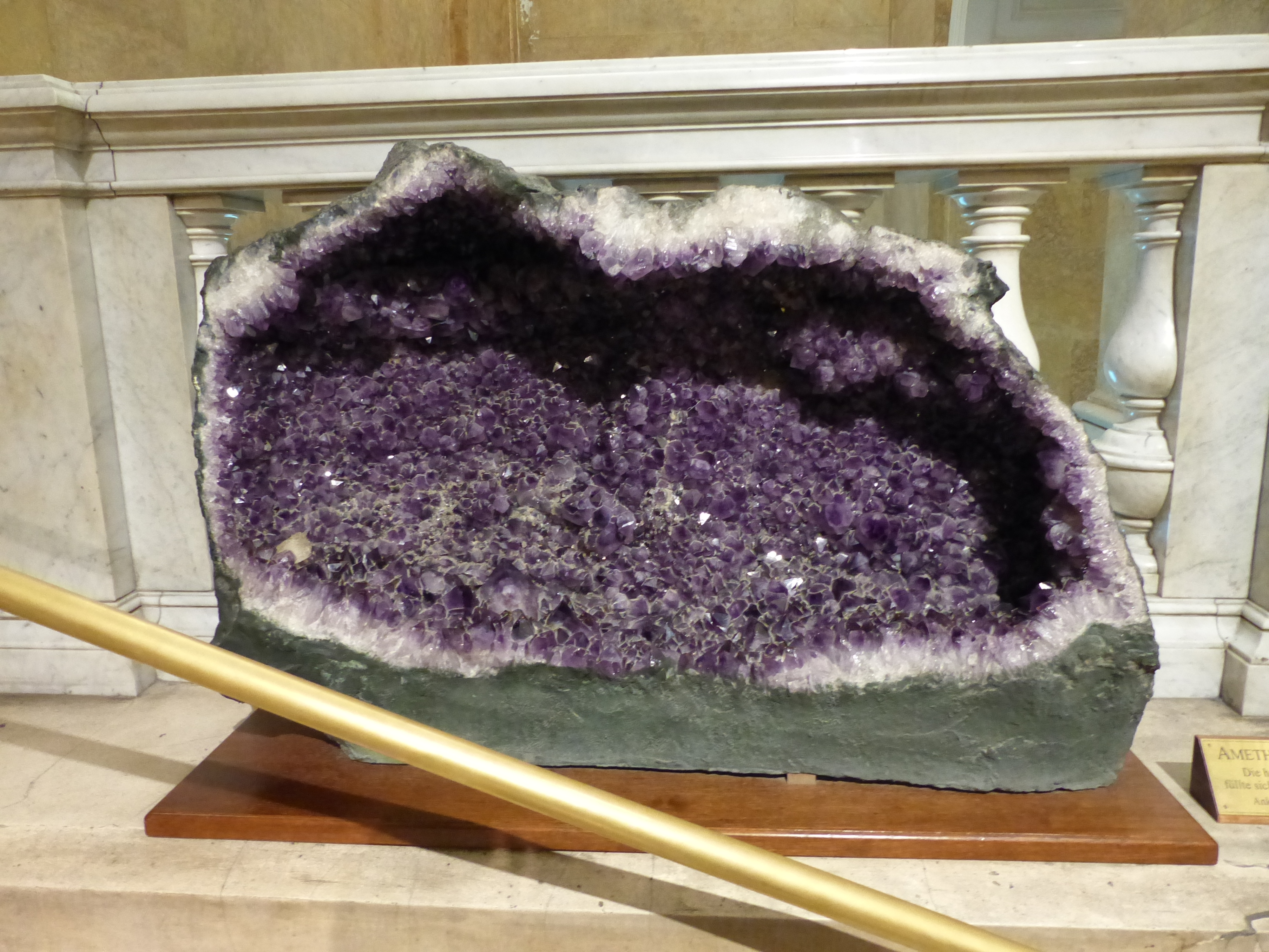 Amethyst Geode from Brasilia, Nature History Museum Vienna